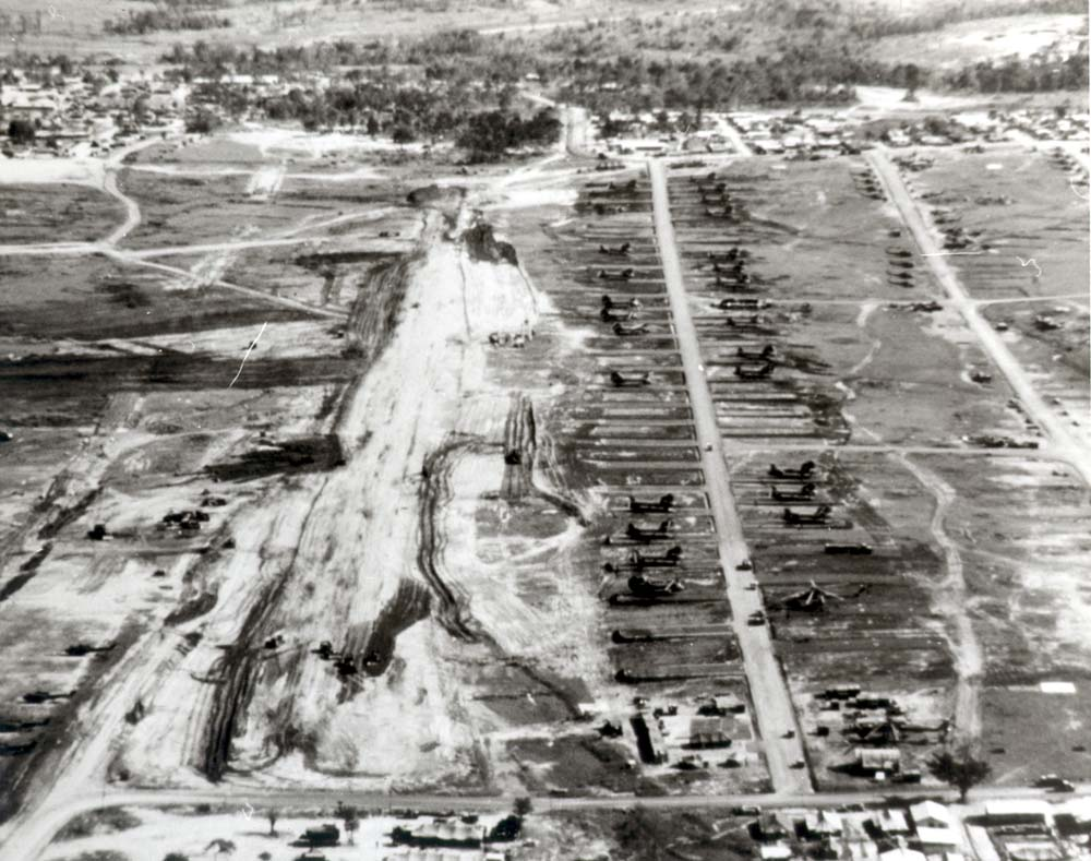 Aerial view of An Khe airfield under construction, 1965.